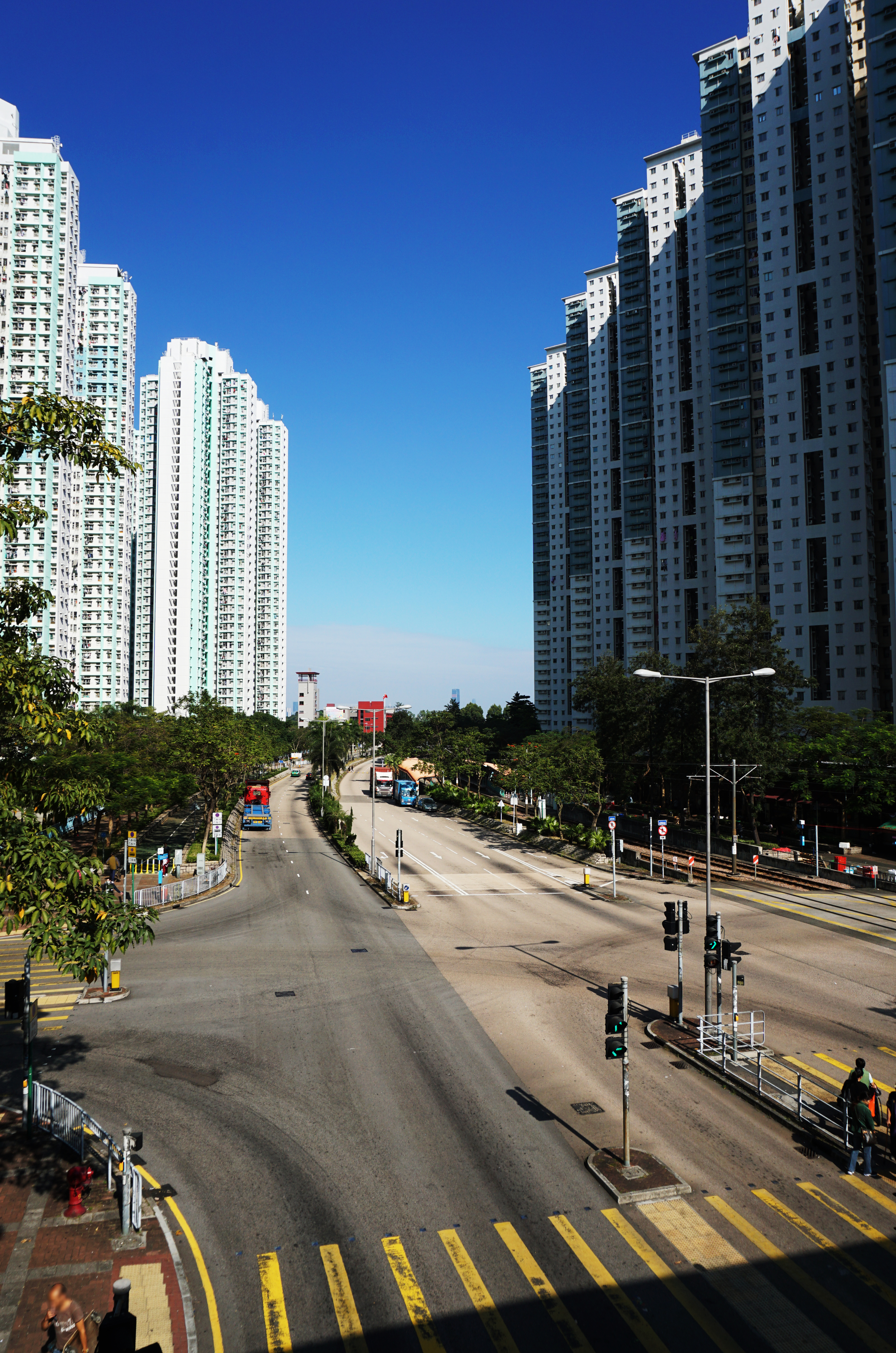 Tin Shui Road in Tin Shui Wai, Hong Kong.